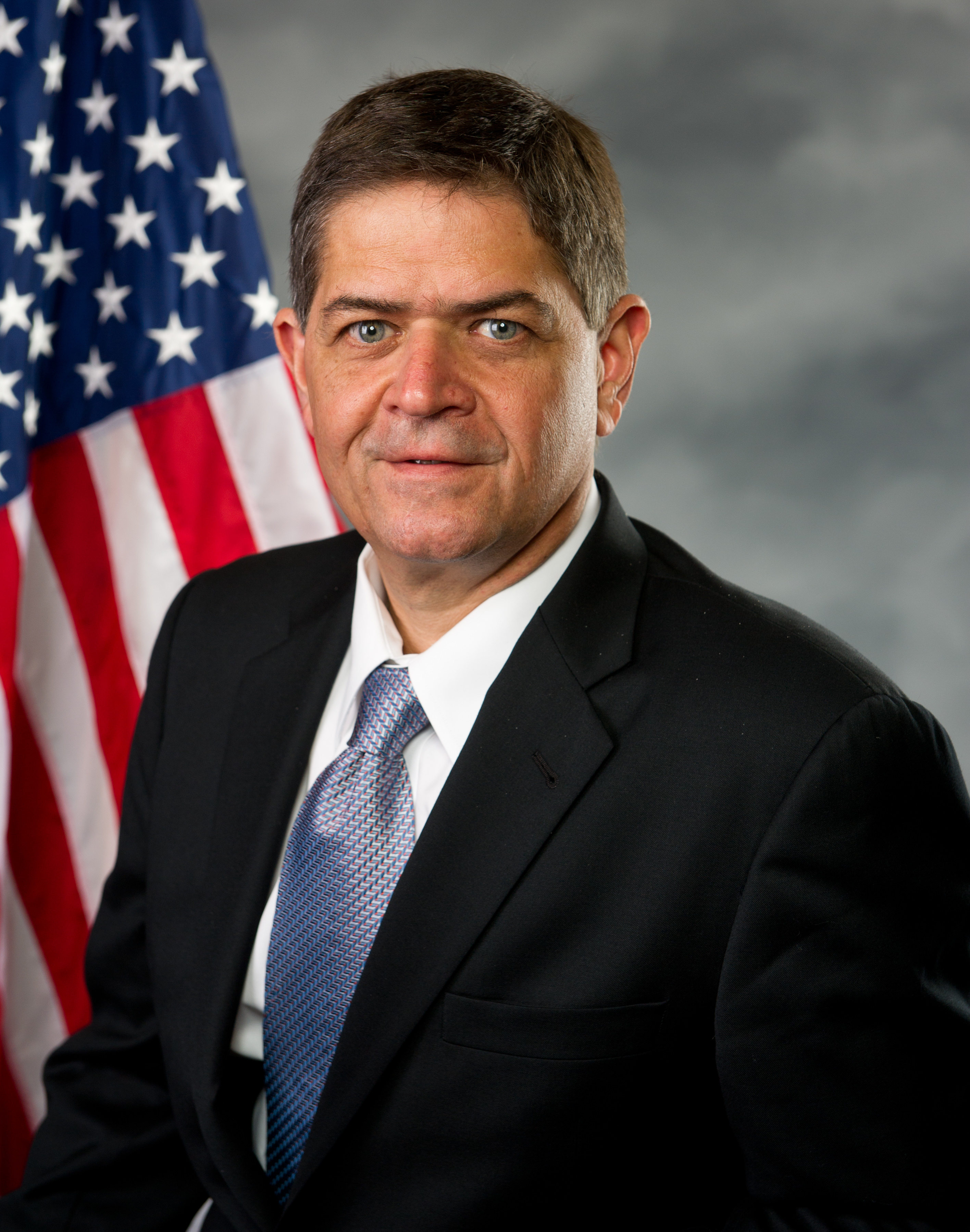 US Congressman Filemon Vela, Jr